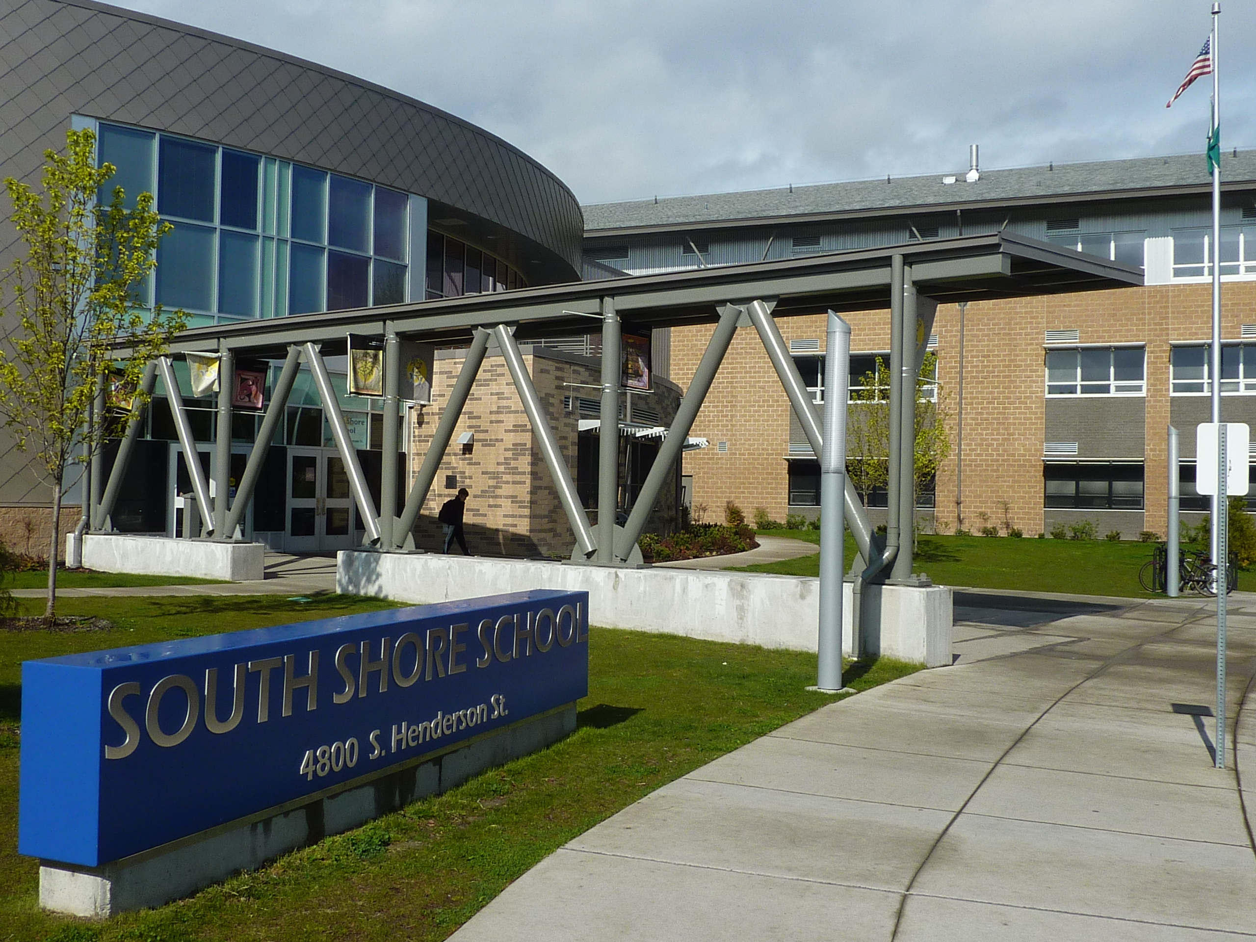 South Shore School, Seattle, WA, USA. Main entry facing S. Henderson Street to the south. K-8 school completed in 2009.